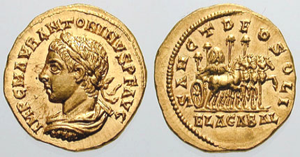 Elagabalus AV Aureus. Struck 218-219 AD. Antioch mint. IMP C M AVR ANTONINVS P F AVG, laureate, draped & cuirassed bust left, seen from behind; SANCT DEO SOLI, ELAGABAL in exergue, quadriga right bearing stone of Emesa upon which is an eagle; four parasols around.